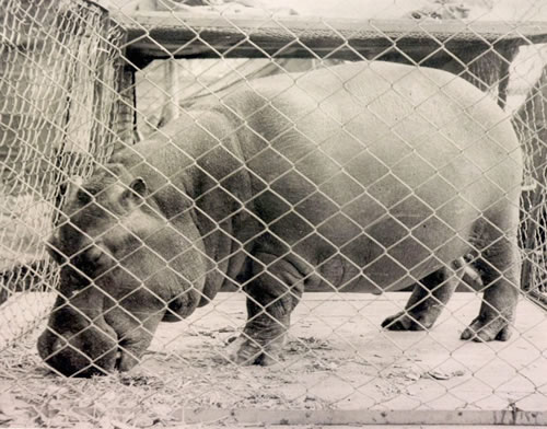 Moving Zoo of Hippopotamus (Kabako,deka) 1953-1955, Japan.